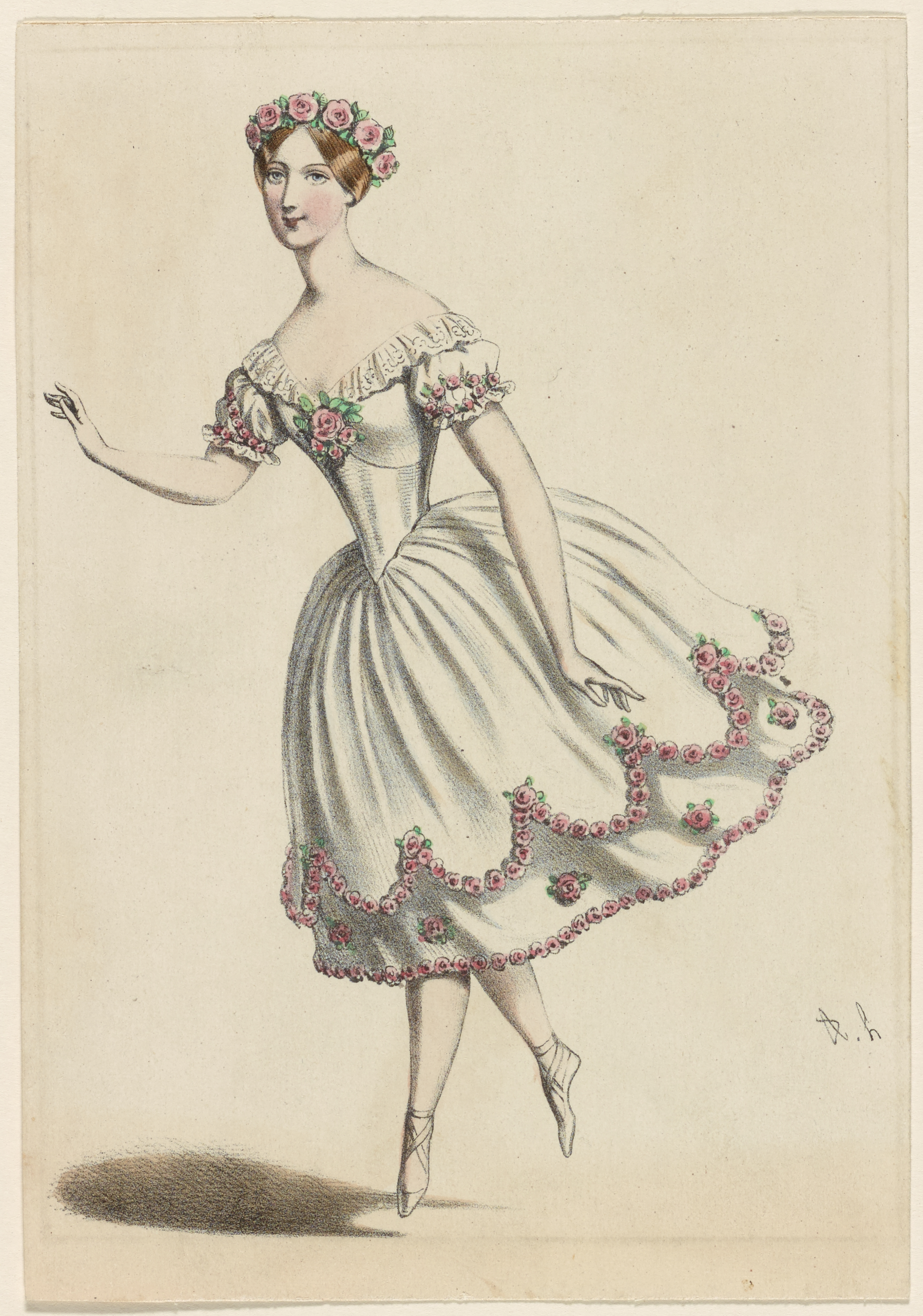 Full length to left, suspended in the air as if skipping on her toes. Wearing a flower-trimmed gown, flowers in her hair.